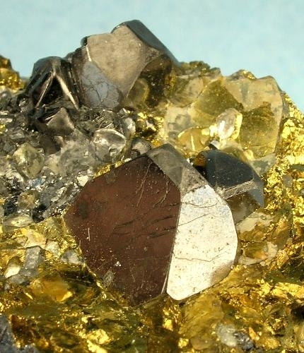 Magnetite, Chalcopyrite, Galena Locality: Aggeneys, Northern Cape Province, South Africa (Locality at ) Size: 4.8 x 4 x 3.6 cm. A very fine set of three Magnetite crystals set in bright shiny Galena crystals, accented by brassy and well-crystallized Chalcopyrites. The Magnetites have a superb metallic lister and excellent crystal form, as do the Chalcopyrites. Only one Magnetite along the edge has suffered any damage - the rest of the specimen is virtually pristine. This includes the largest of the Magnetites, which is pristine and 1 cm across. An excellent and aesthetic combination piece from a very rare locality for crystallized specimens. Ex. Charlie Key.